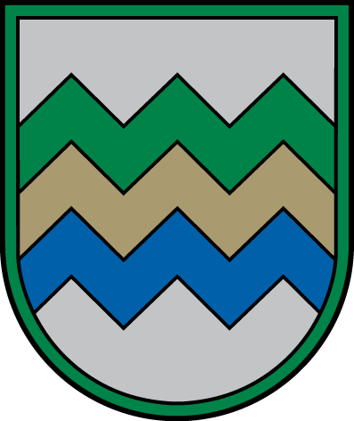 Coat of arms of Garkalnes novads, Latvia